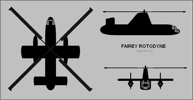 Three-view silhouette drawing of the Fairey Rotodyne.